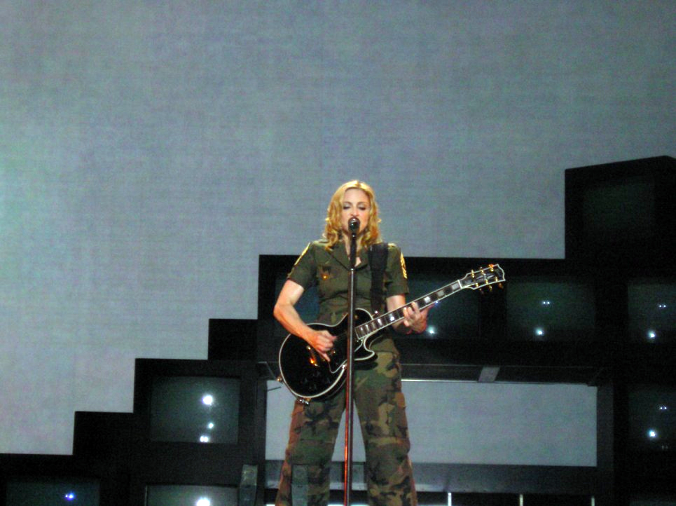 Picture taken at the Manchester concert